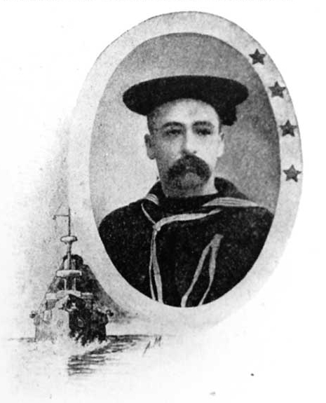 Ordinary Seaman Samuel S. Triplett, United States Navy. Halftone reproduction of a photograph, published in Deeds of Valor, Volume II, page 406, by the Perrien-Keydel Company, Detroit, 1907. Samuel S. Triplett was awarded the Medal of Honor for "displaying heroism" during mine clearance operations at Caimanera, Guantanamo Bay, Cuba on 26-27 July 1898, during the Spanish-American War. He was then serving in USS Marblehead (Cruiser # 11).